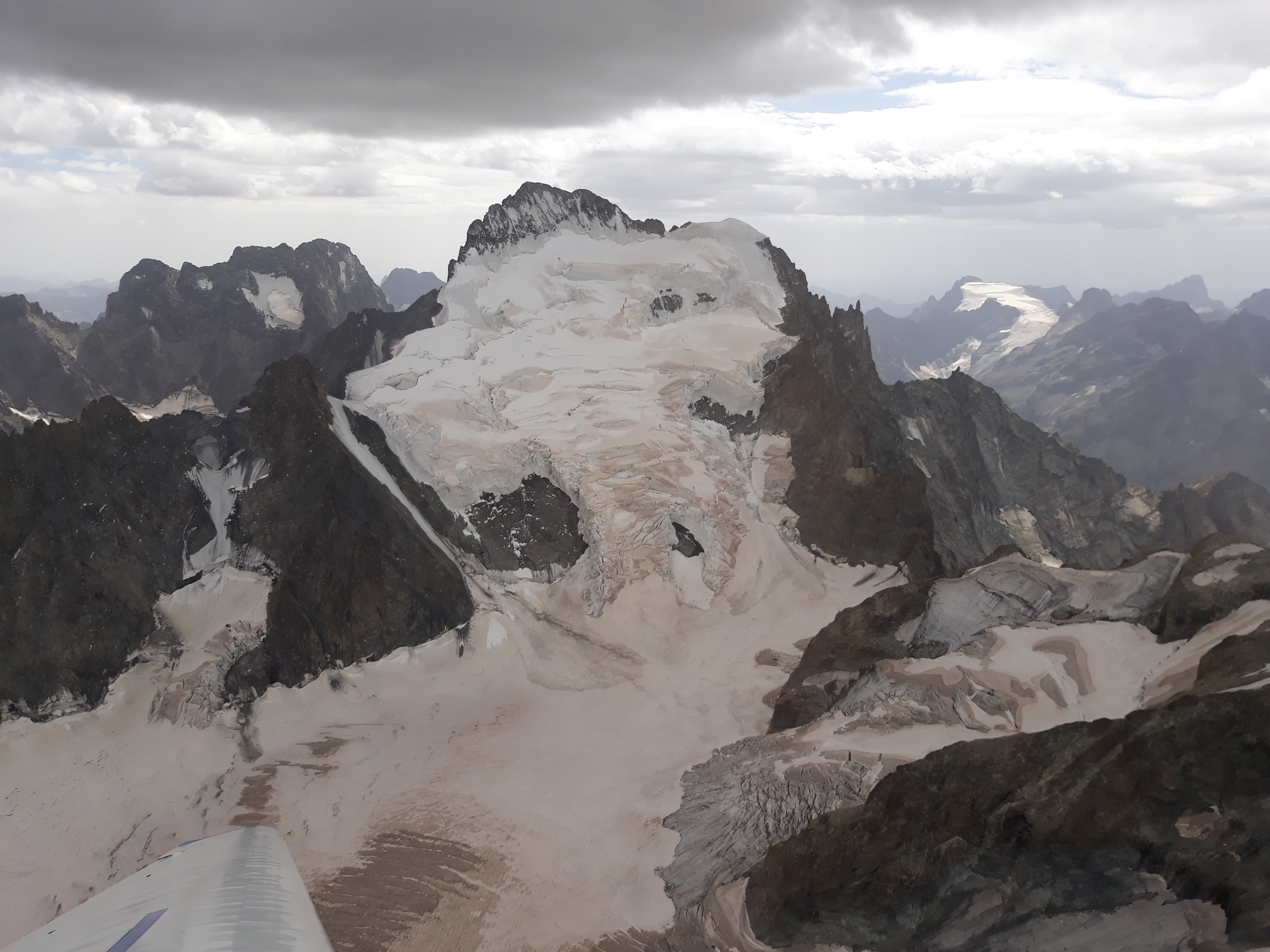 The Barre des Écrins seen from a glider.